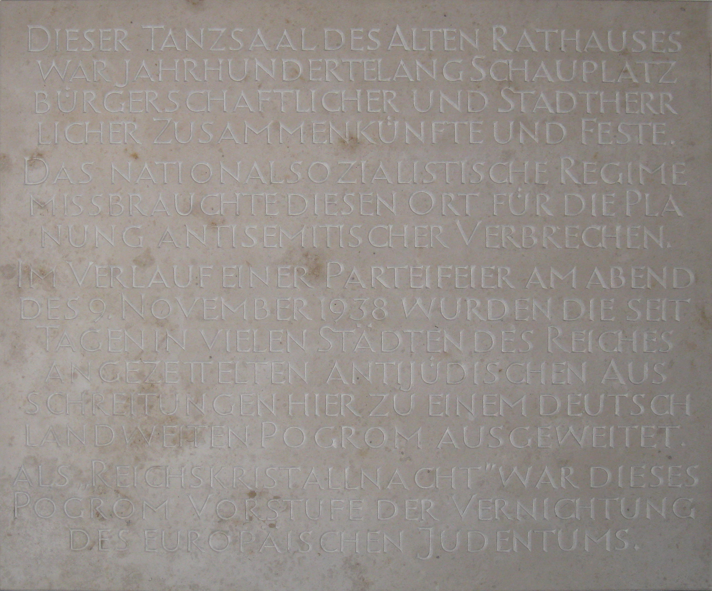 Plaques in Munich (Old Townhall) commemorating the 9th of november 1938, a major pogrom in Germany in the time of "National Socialism"